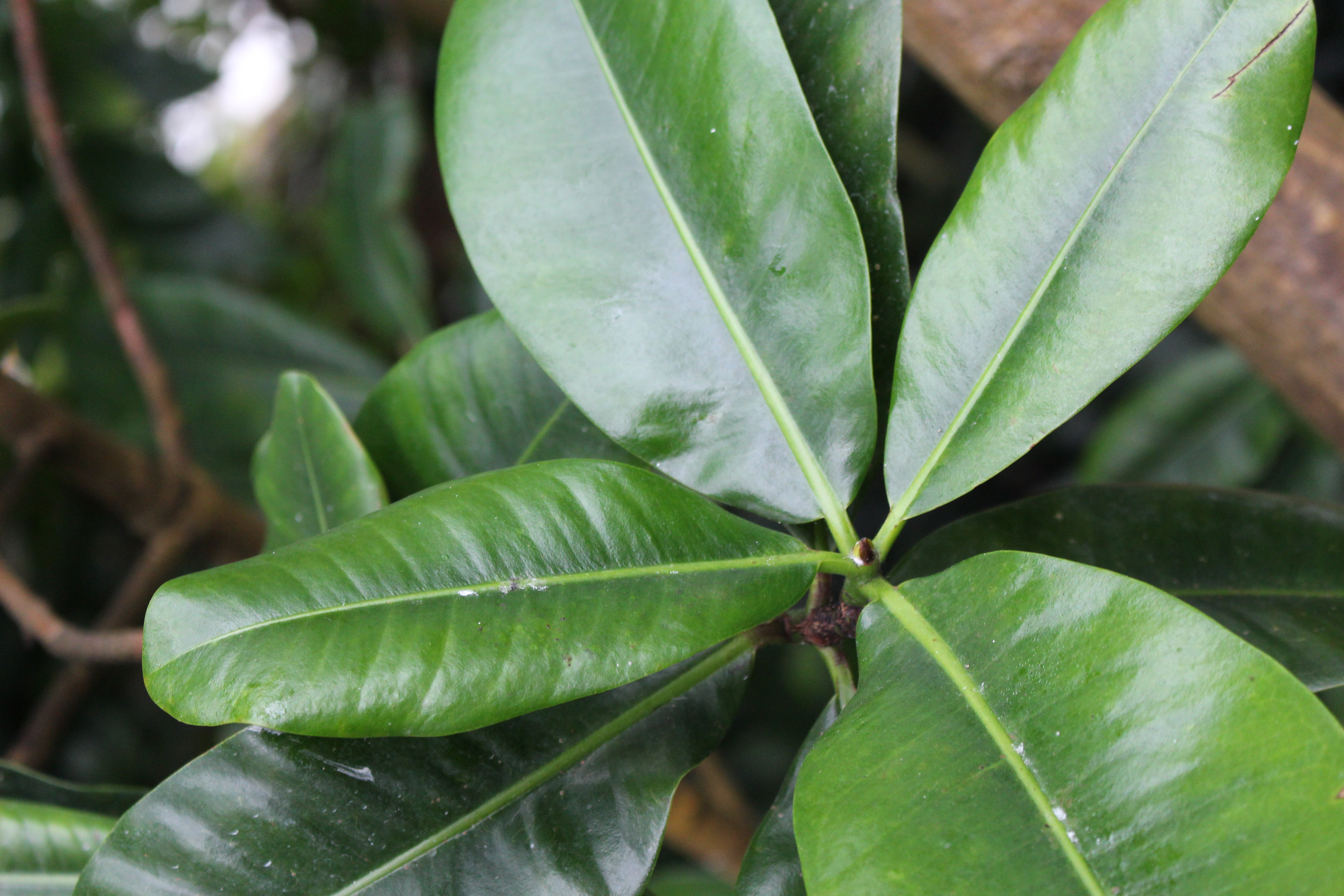 leaves of Mammea americana at the botanical garden München-Nymphenburg